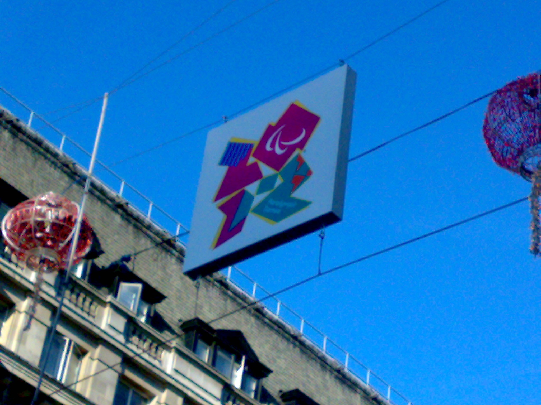 2012 Summer Paralympics logo at Oxford Circus in London